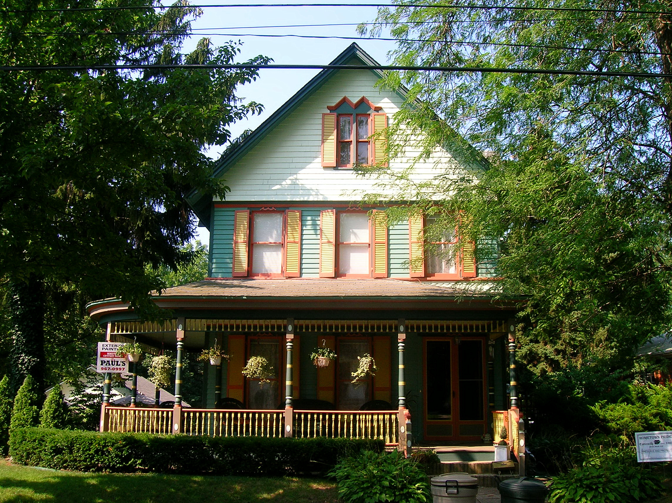 The re-painted Victorian house at 88 Bentley Street in Tottenville, Staten Island, New York City.